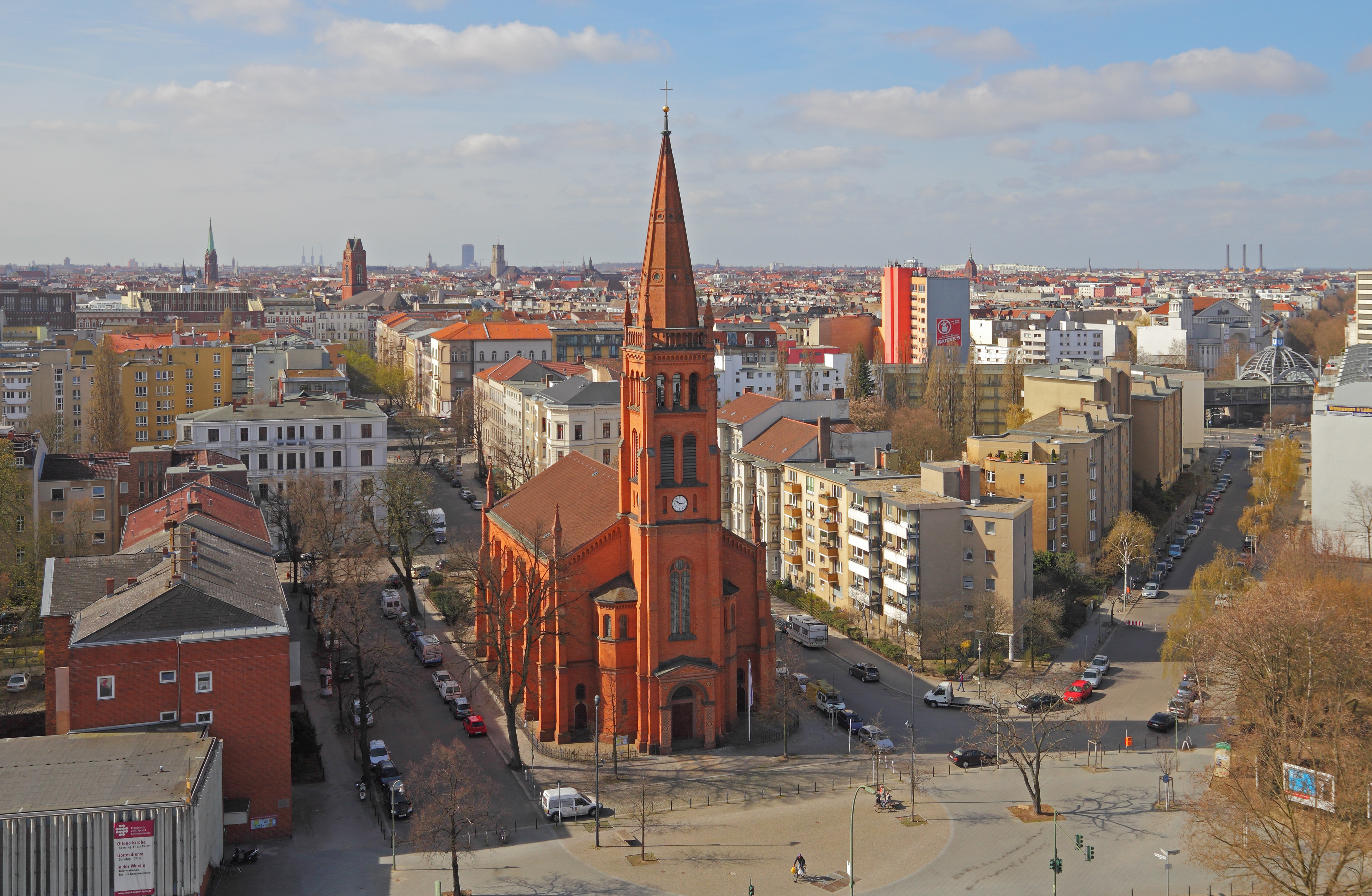 Twelve Apostles Church in Berlin-Schöneberg, Germany.